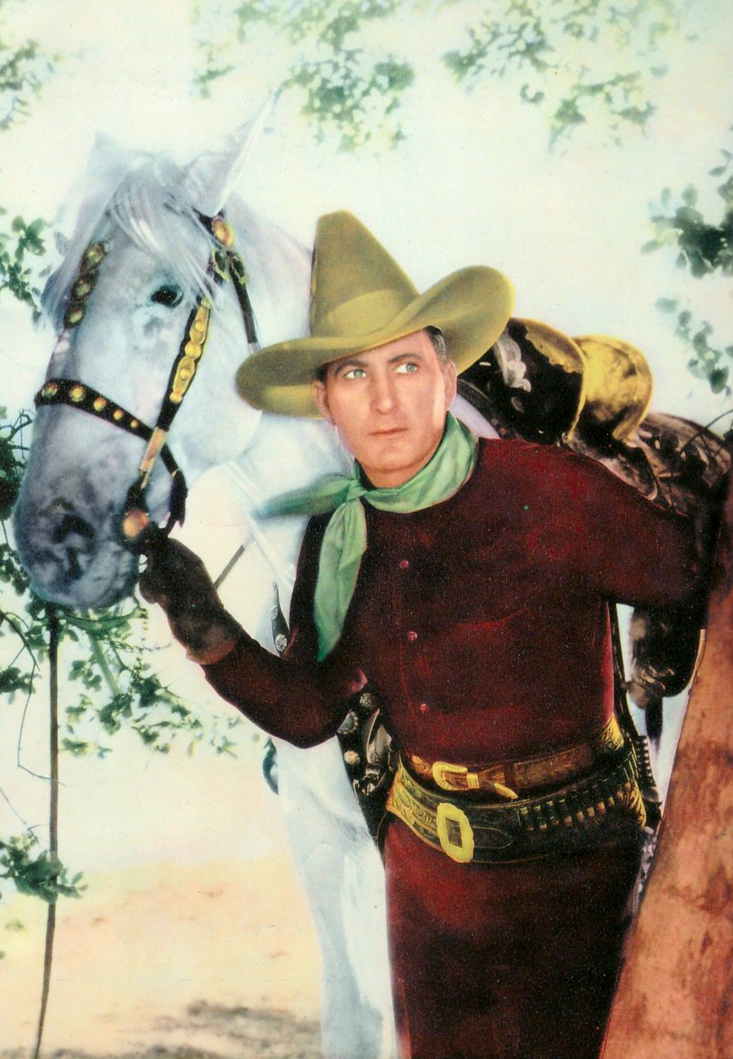 Photo of Tim McCoy. Color photos of film stars were given as premiums for Dixie cup ice cream from 1933-1954. Saving enough lids from the ice cream cups meant mailing them away for large premium photos of stars. This photo is a Dixie Cup premium from 1934.